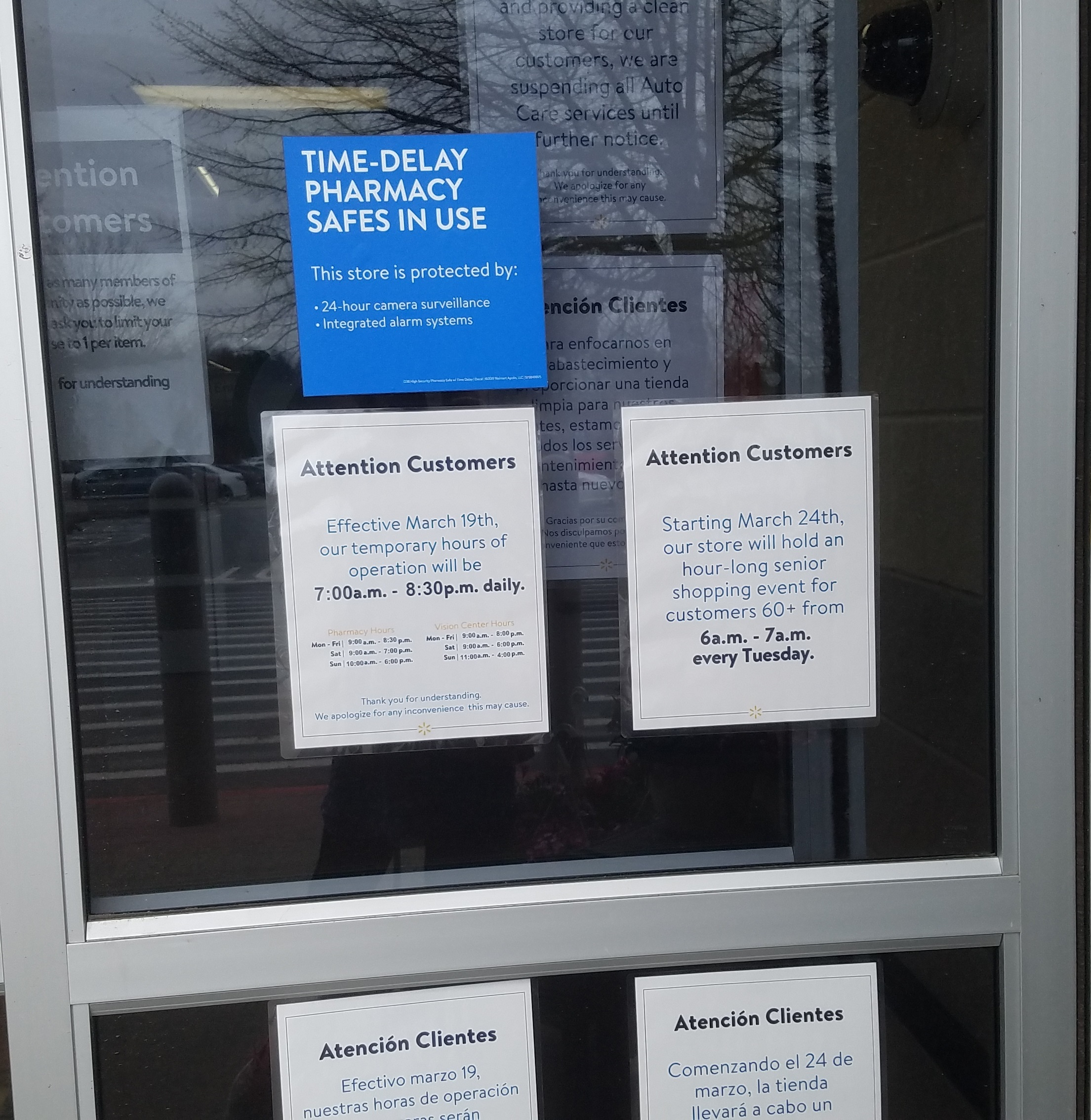 A sign at a Walmart explaining rule changes. These include adjusted hours as well as a special time that senior citizens can shop without having to deal with other customers panic buying